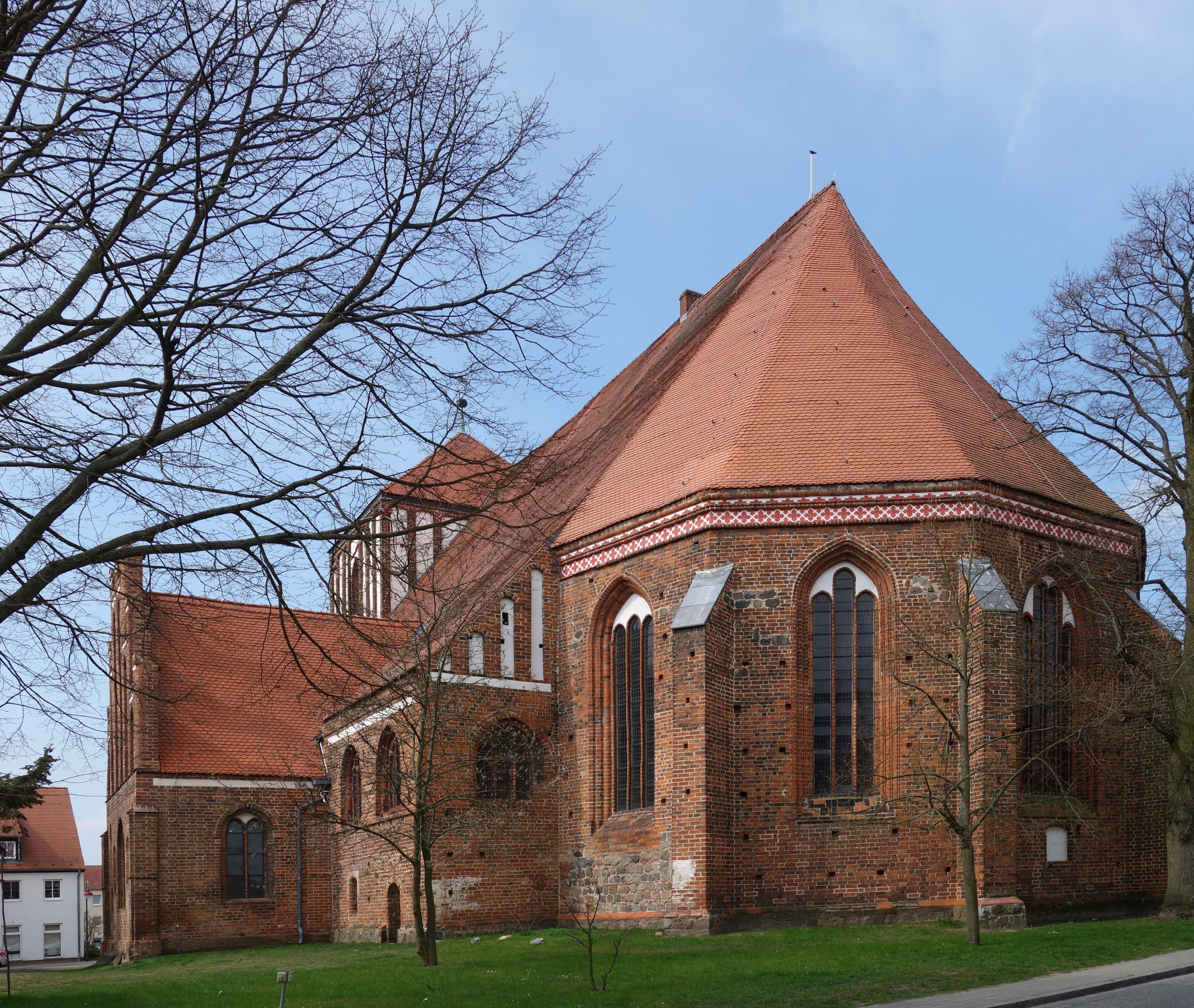 East-south-eastern view of church St. Peter and Paul, Wusterhausen municipality, Ostprignitz-Ruppin district, Brandenburg state, Germany